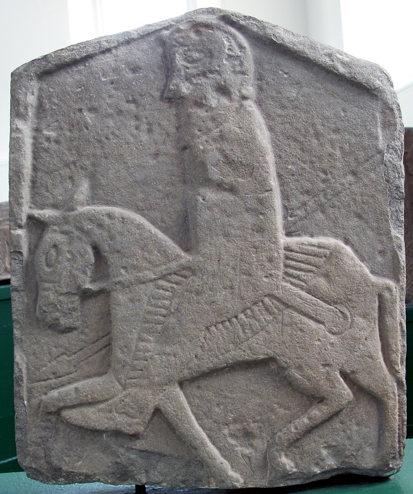 Meigle 3 Pictish stone in the Meigle Sculptured Stone Museum, Scotland.